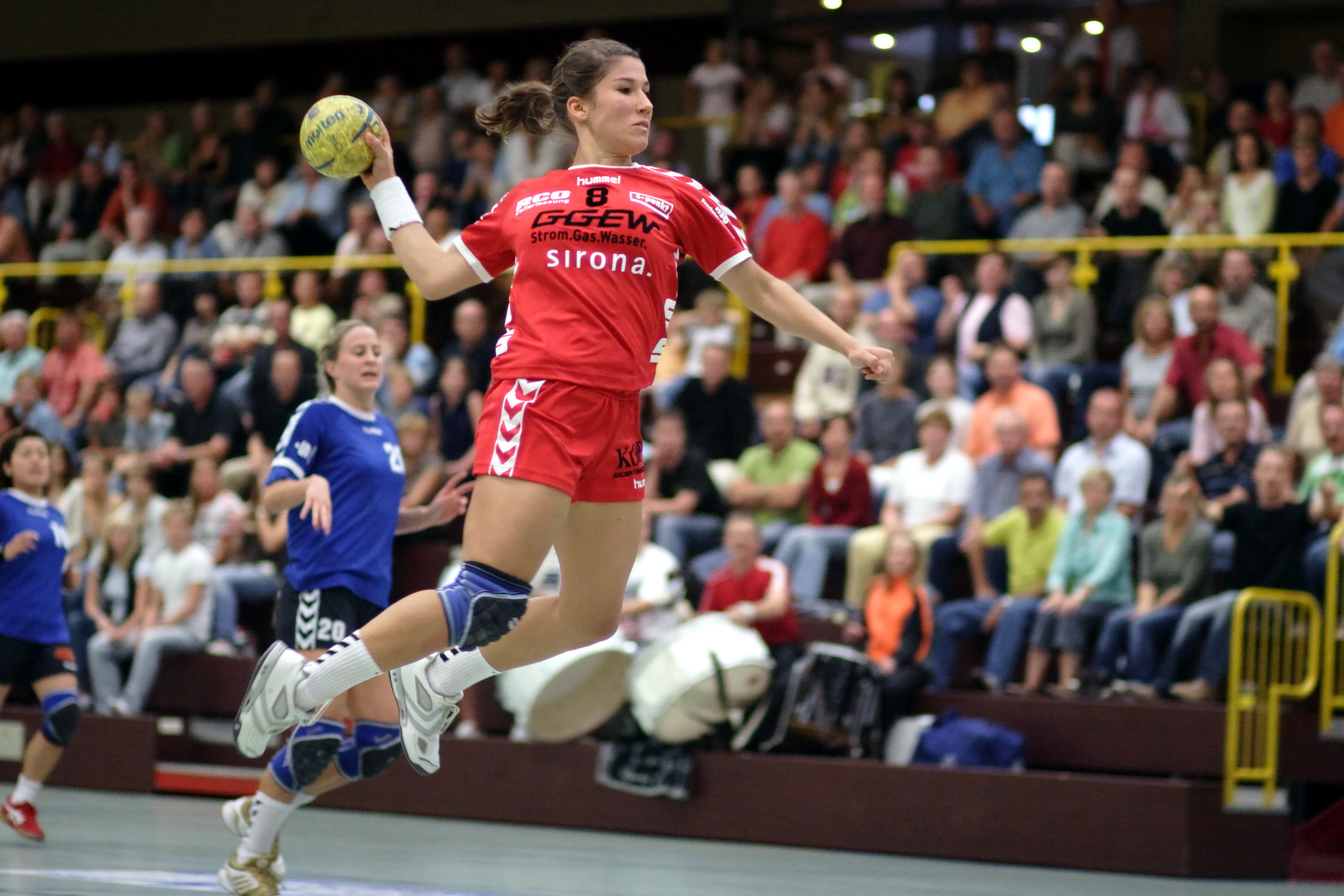 Mara Friton, on September 30th 2006 in Bensheim (Germany), during the Bundesliga match HSG Bensheim/Auerbach - SC Riesa